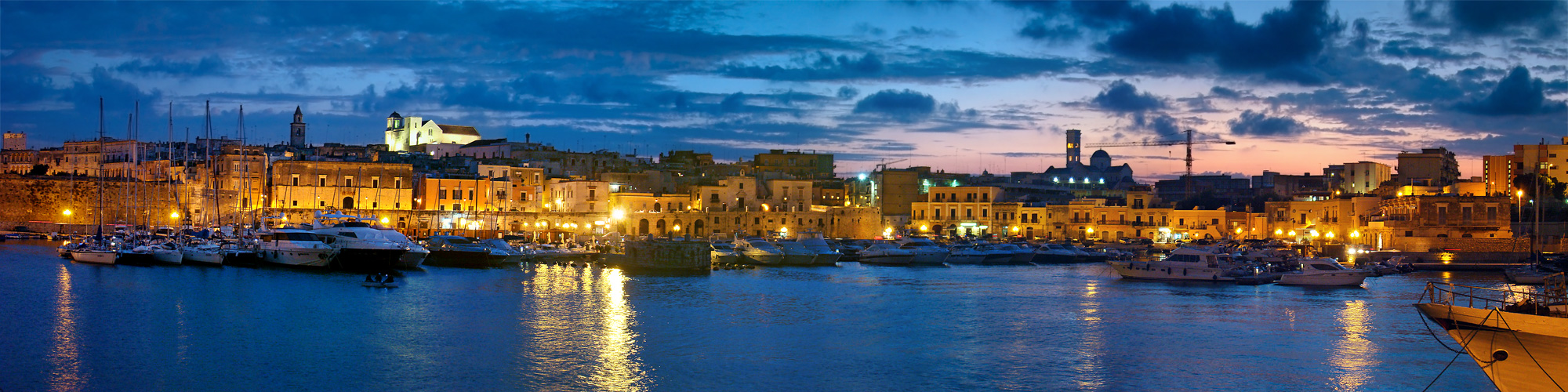 Bisceglie, Apulia, Italy. View from the harbour pier. In the centre left, the brightly lit Cocathedral of San Pietro Apostolo dominates the town.